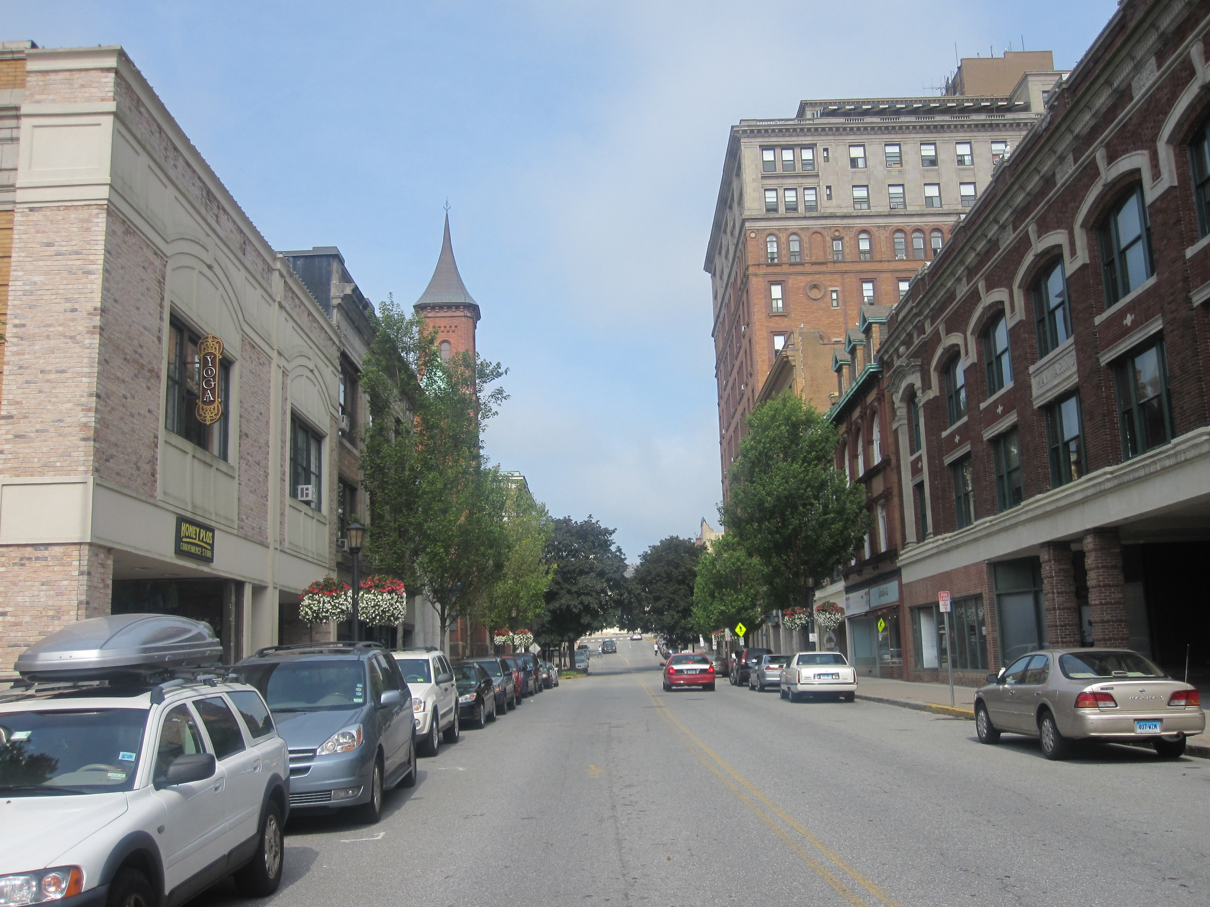 State Street west of Union Street Downtown New London, CT